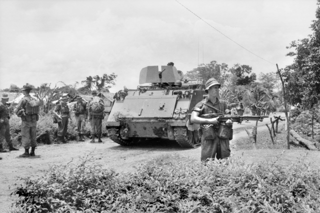 Bien Hoa, Vietnam. 1965-08. Armoured Personnel Carriers of the 4th/19th Prince of Wales's Light Horse Regiment are surrounded by a protective cordon of troops. The troops are from the 1st Battalion, The Royal Australian Regiment (1RAR), and are often supported by armoured elements in operatons against the Viet Cong.